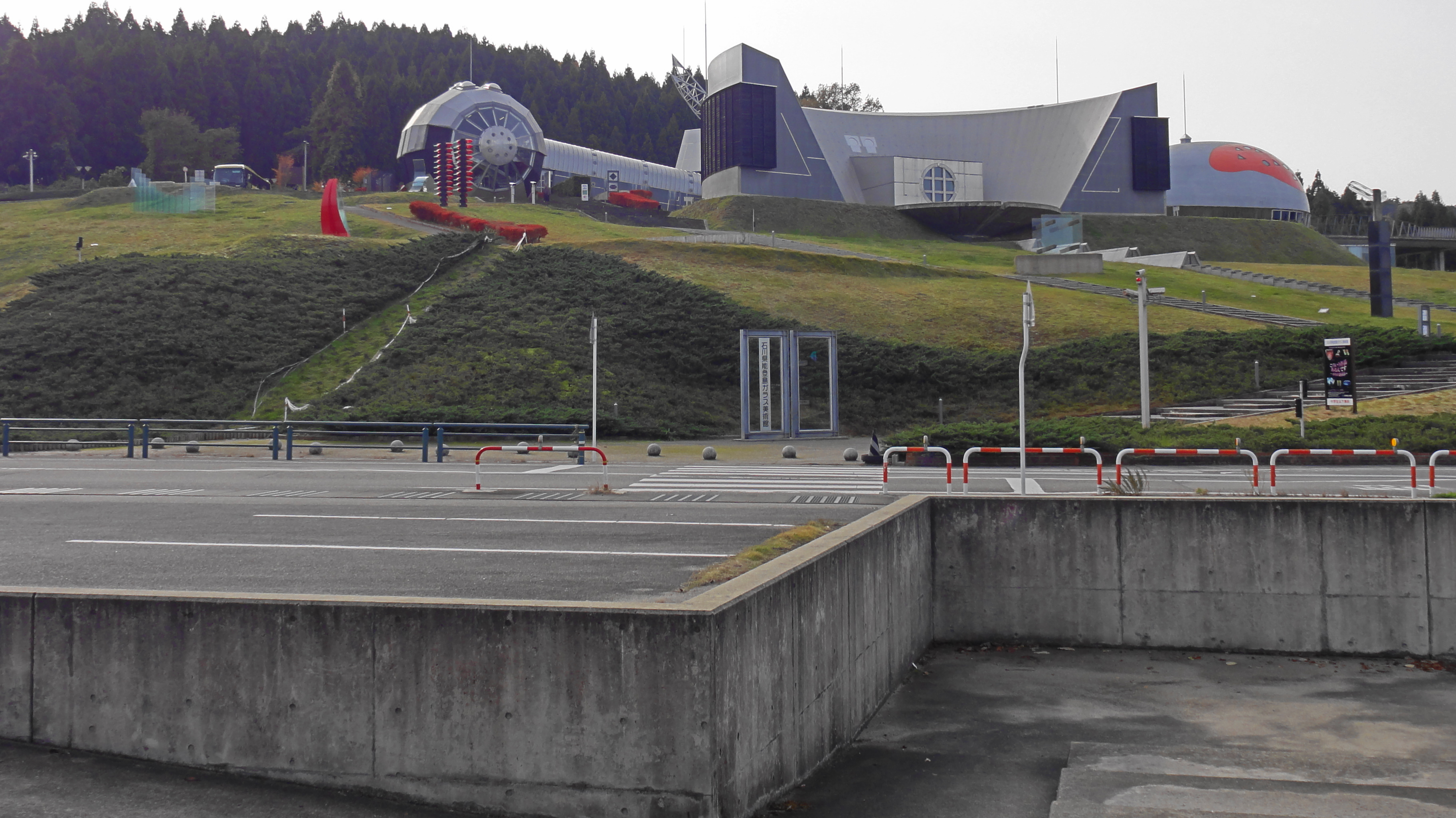 Notojima Glass Museum,Ishikawa prefecture,Japan